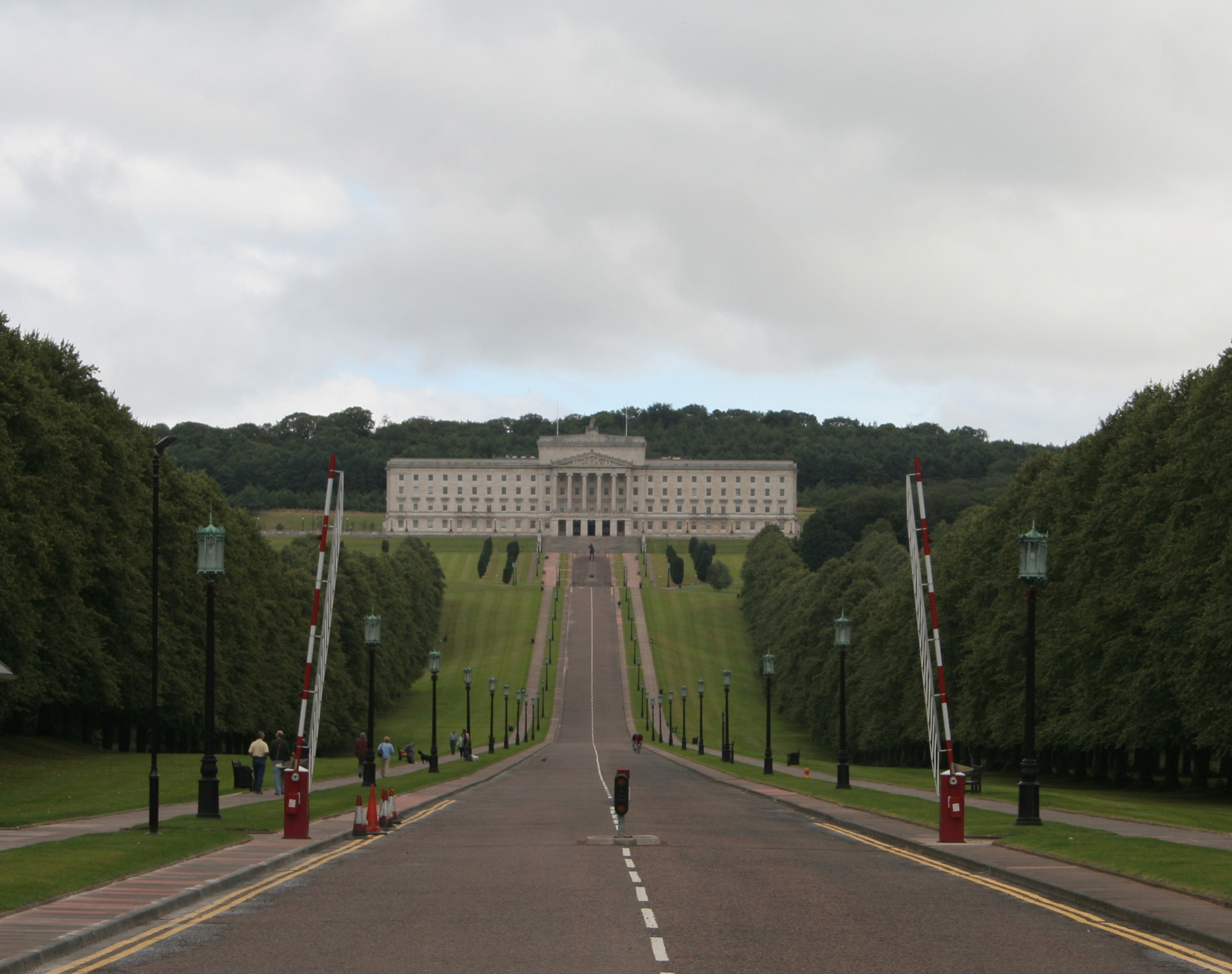 Prince of Wales Avenue, Stormont Estate, Belfast